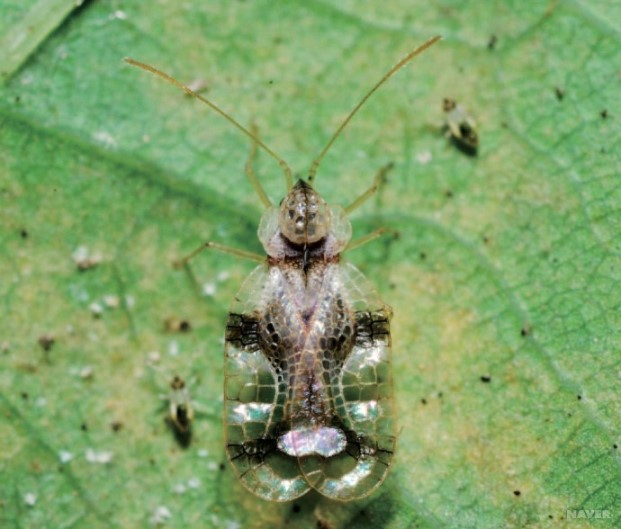 It is azalea trapezius